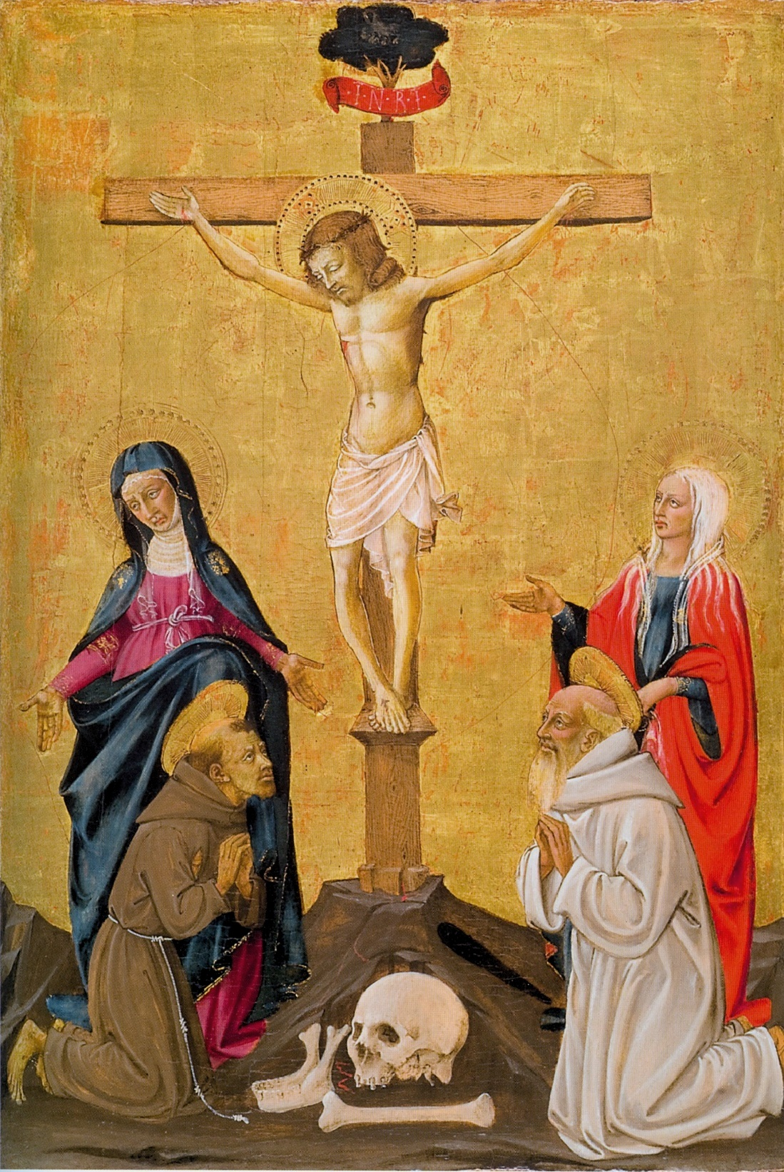 Apollonio di Giovanni., Cristo Crocifisso fra la Verginee i santi Maria Maddalena, Francesco e Benedetto, ca 1450, Collezione privata